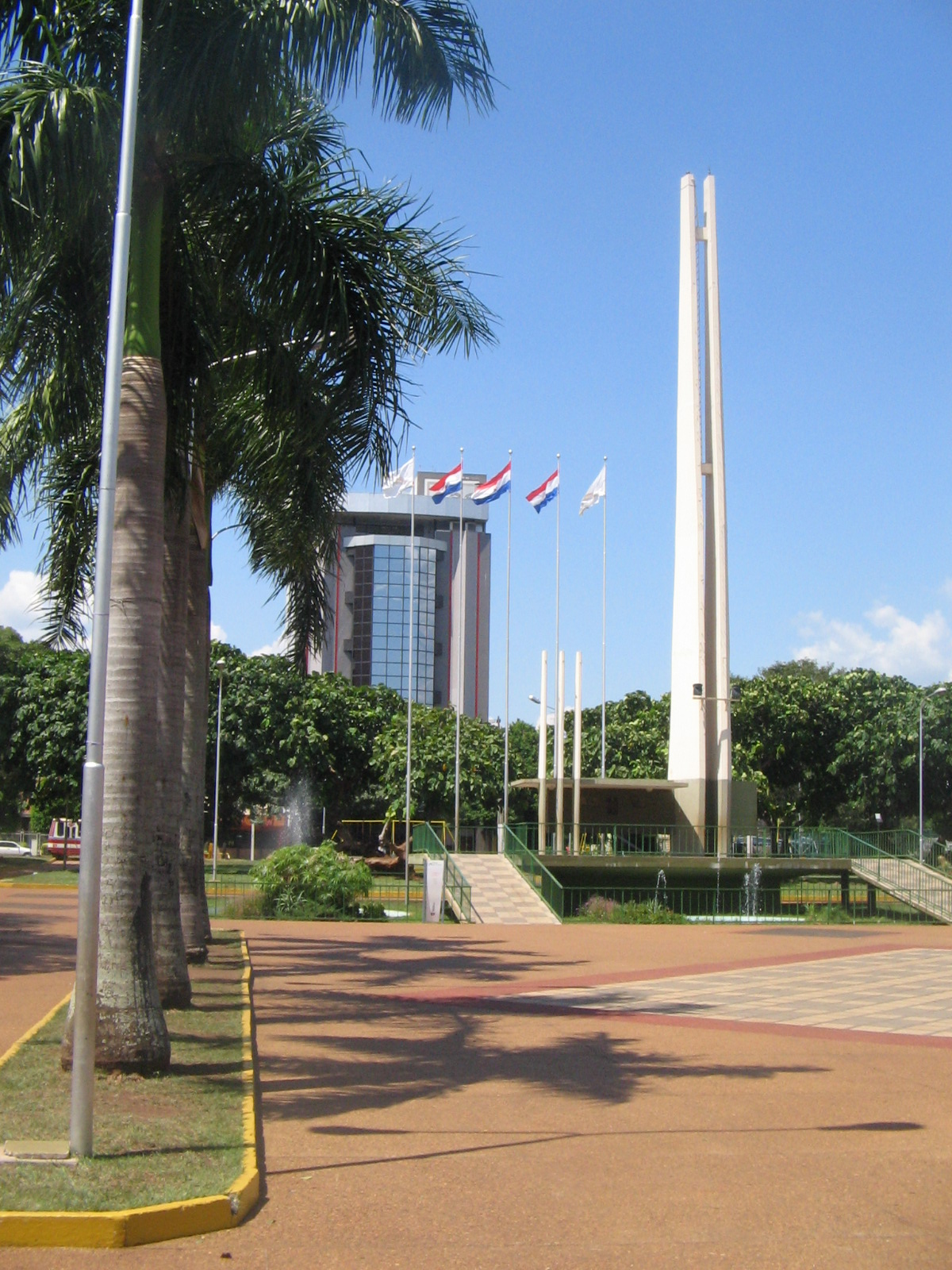 Place of Army in Encarnación City, Paraguay